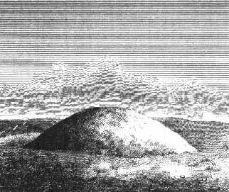 Bowl barrow from an engraving of barrow types, from Colt Hoare's introduction to "The Ancient History of Wiltshire".